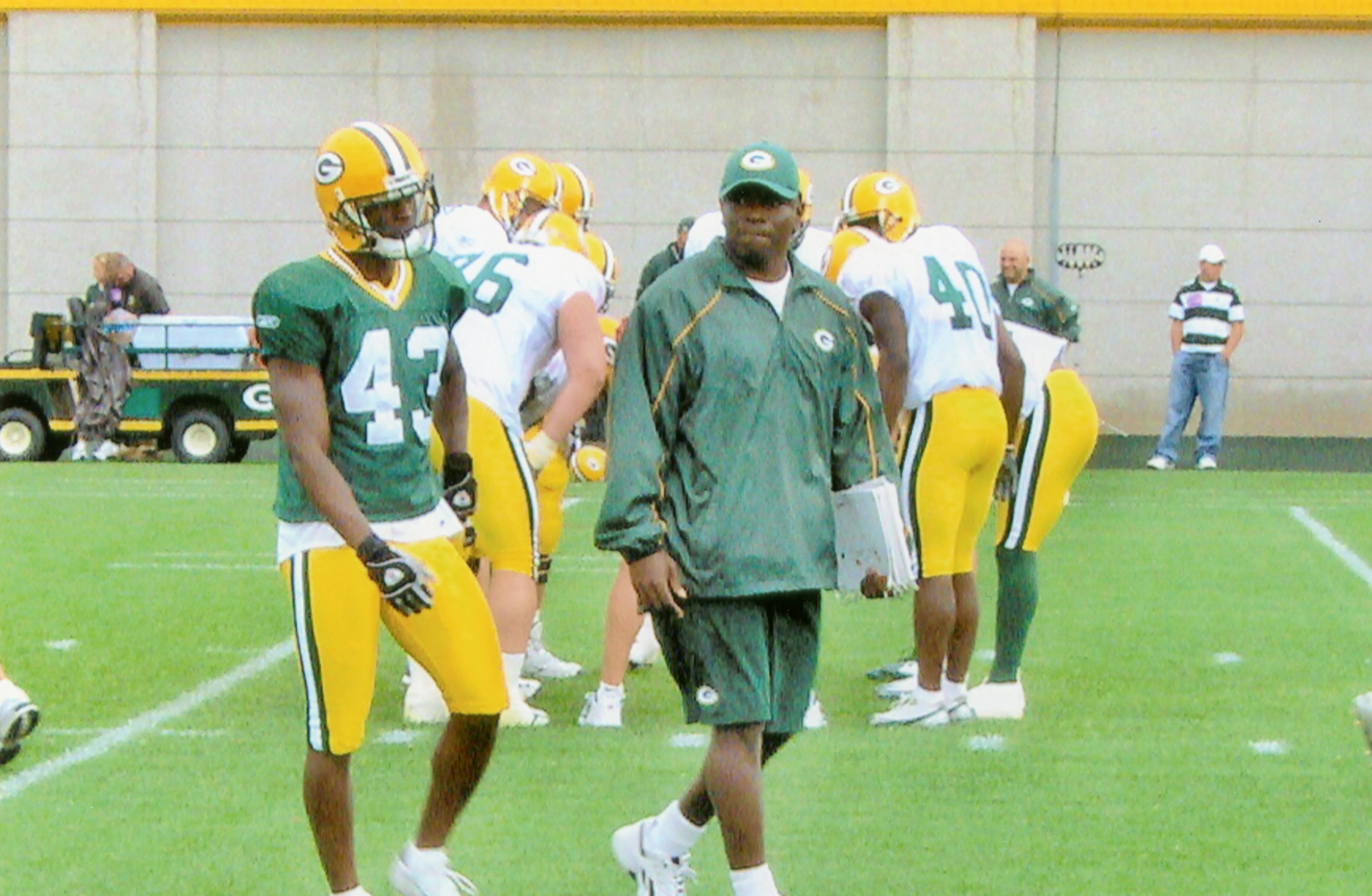 Jackson as a member of the Green Bay Packers defensive coaching staff.